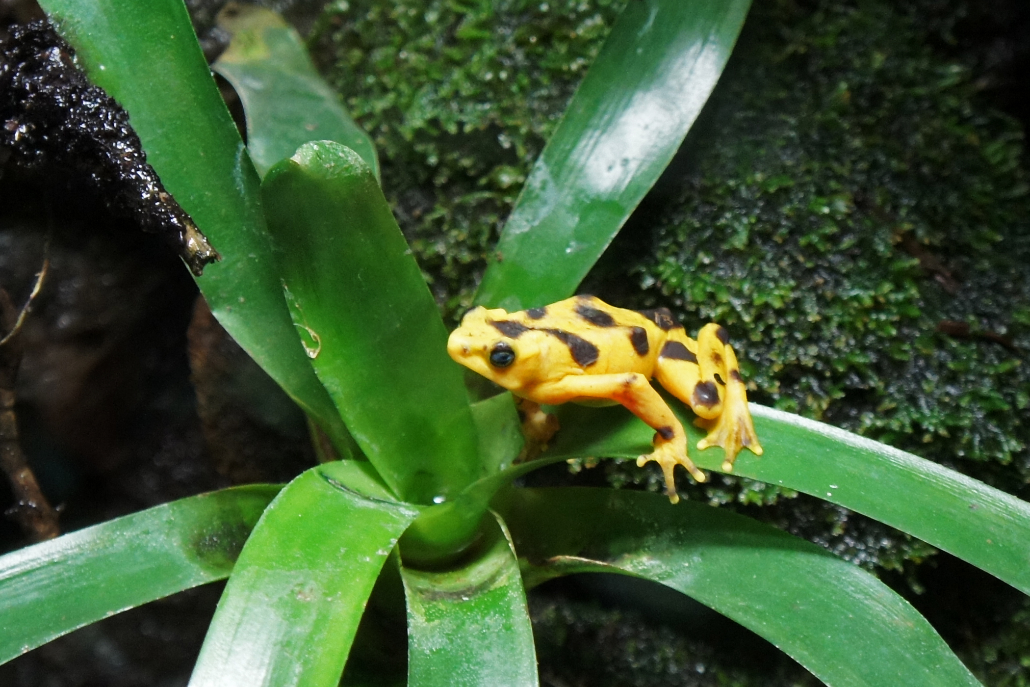 Panamanian golden frog (Atelopus zeteki) exhibited at the National Aquarium in Baltimore, MD, USA